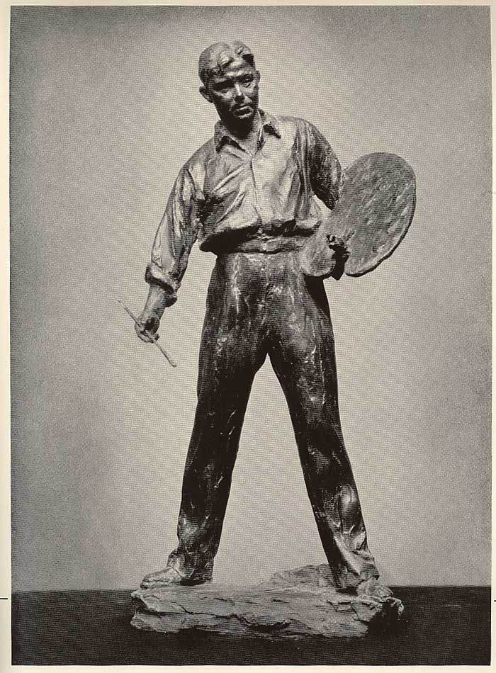 Image of a sculpture of Robert Brackman